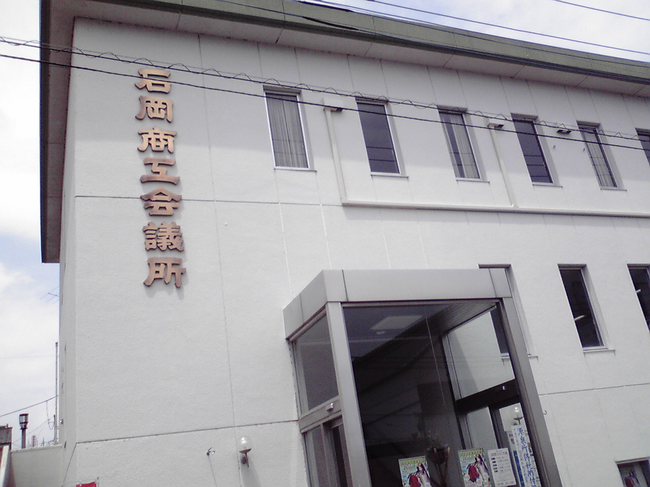 This is the building of"Ishioka Chamber of Commerce & Industry".